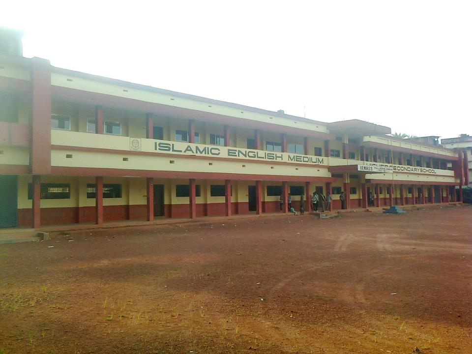 iemhss